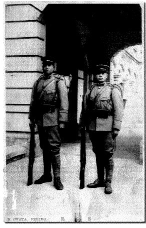 Taiwnoldamy (Japan)in 1897 zn:台灣混成旅團